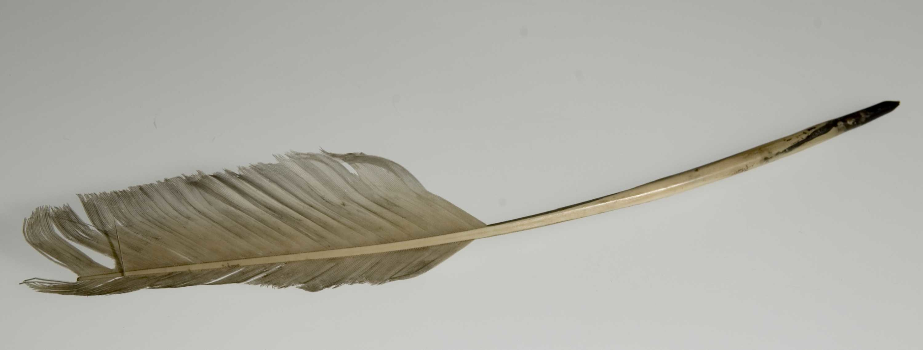 Quill from Oslo, Norway.